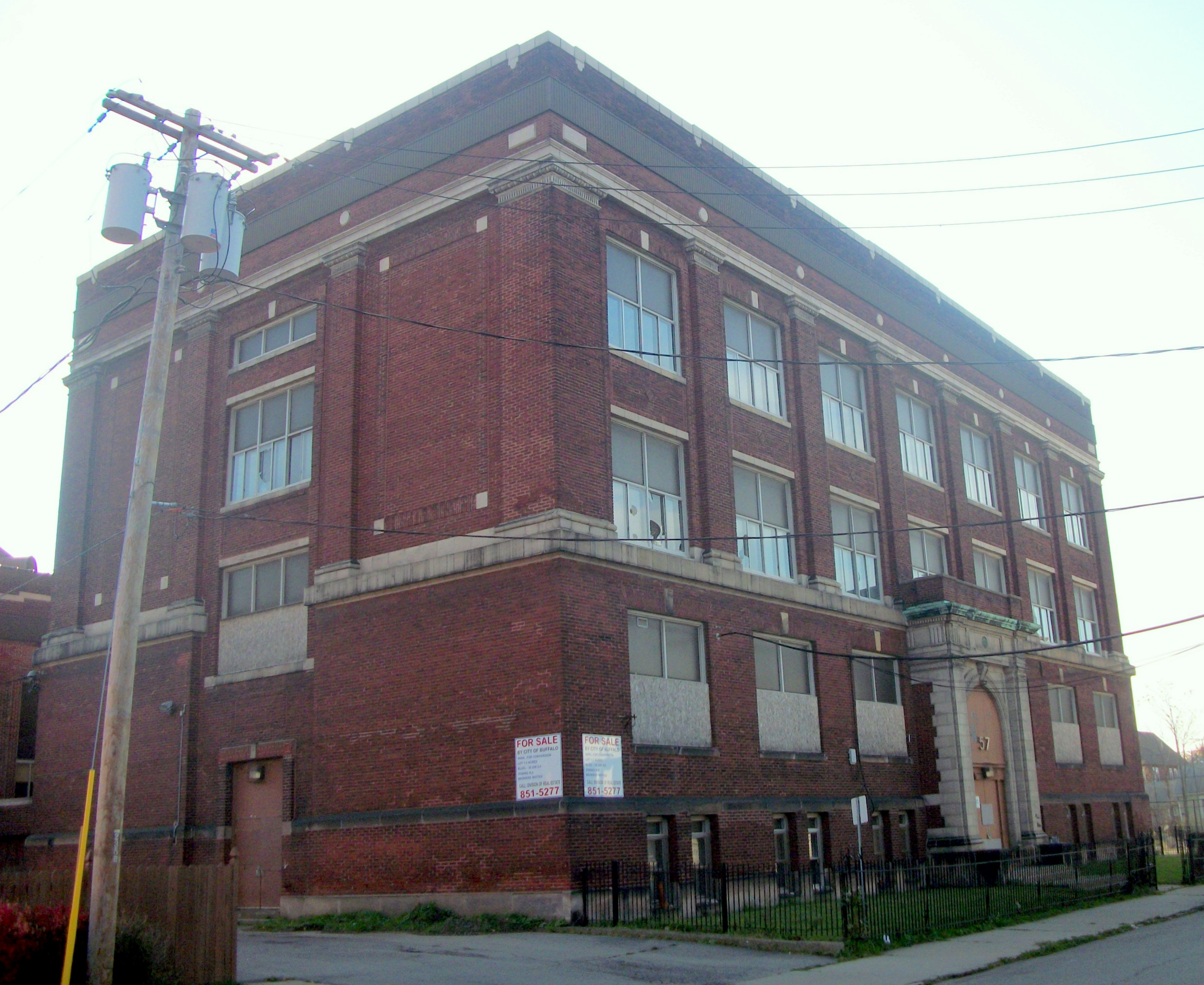 School 57 Broadway Village Elementary School 231 Sears Street Buffalo, NY 14212